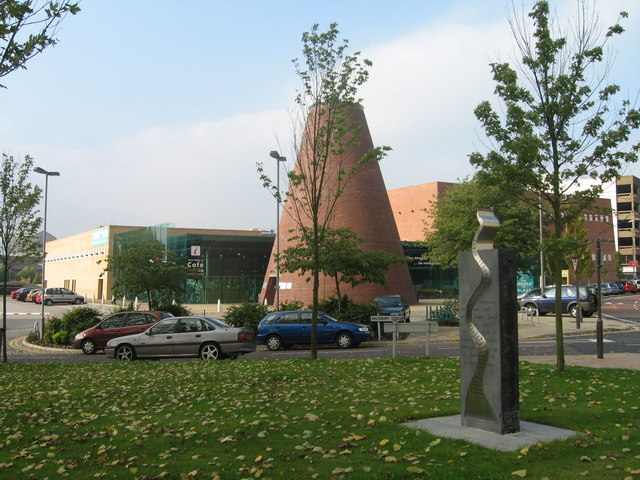 The World of Glass Museum, St Helens The World of Glass Museum, which opened in 2000, incorporating the Pilkington Glass Museum, has received many awards including North West Attraction of the Year.